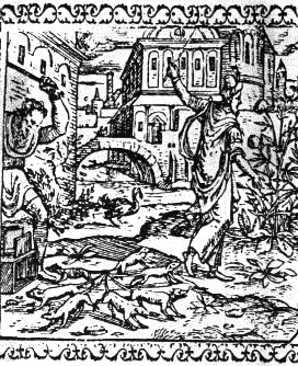 Woodcut emblem, i.a. from J. Sambucus, Emblemata (i.a. 4th ed., Antwerp, 1576).